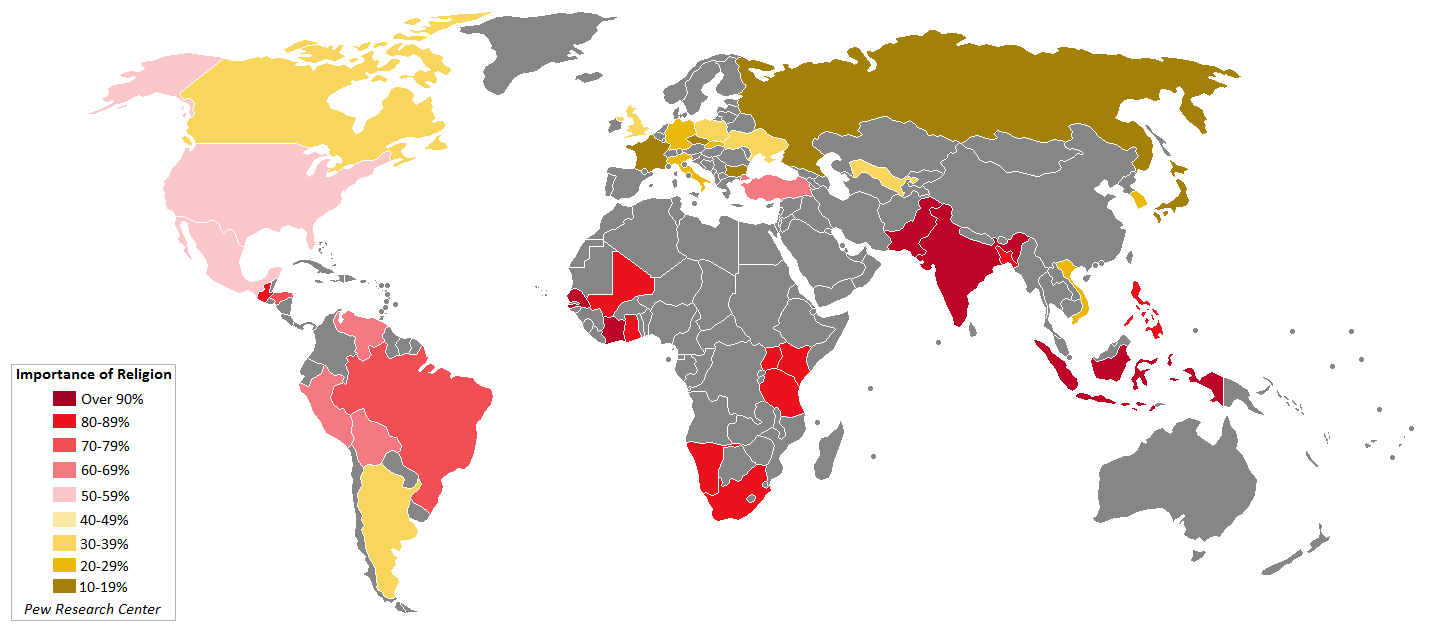 Map of the world, showing percentage by country who believe religion is important (2002). Data by the Pew Research Center.